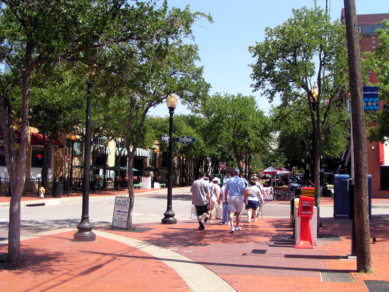 Looking south down Market Street in the West End Historic District of Downtown Dallas, Texas (USA)